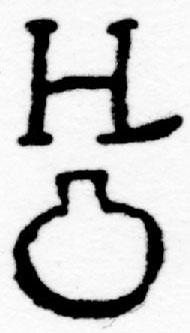 De Porceleyne Fles, Delft, mark.